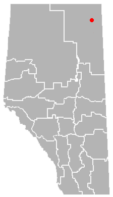 Location of Fort Chipewyan, Alberta